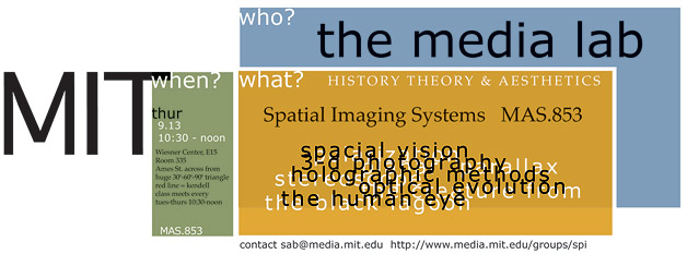 Napier S. Fuller